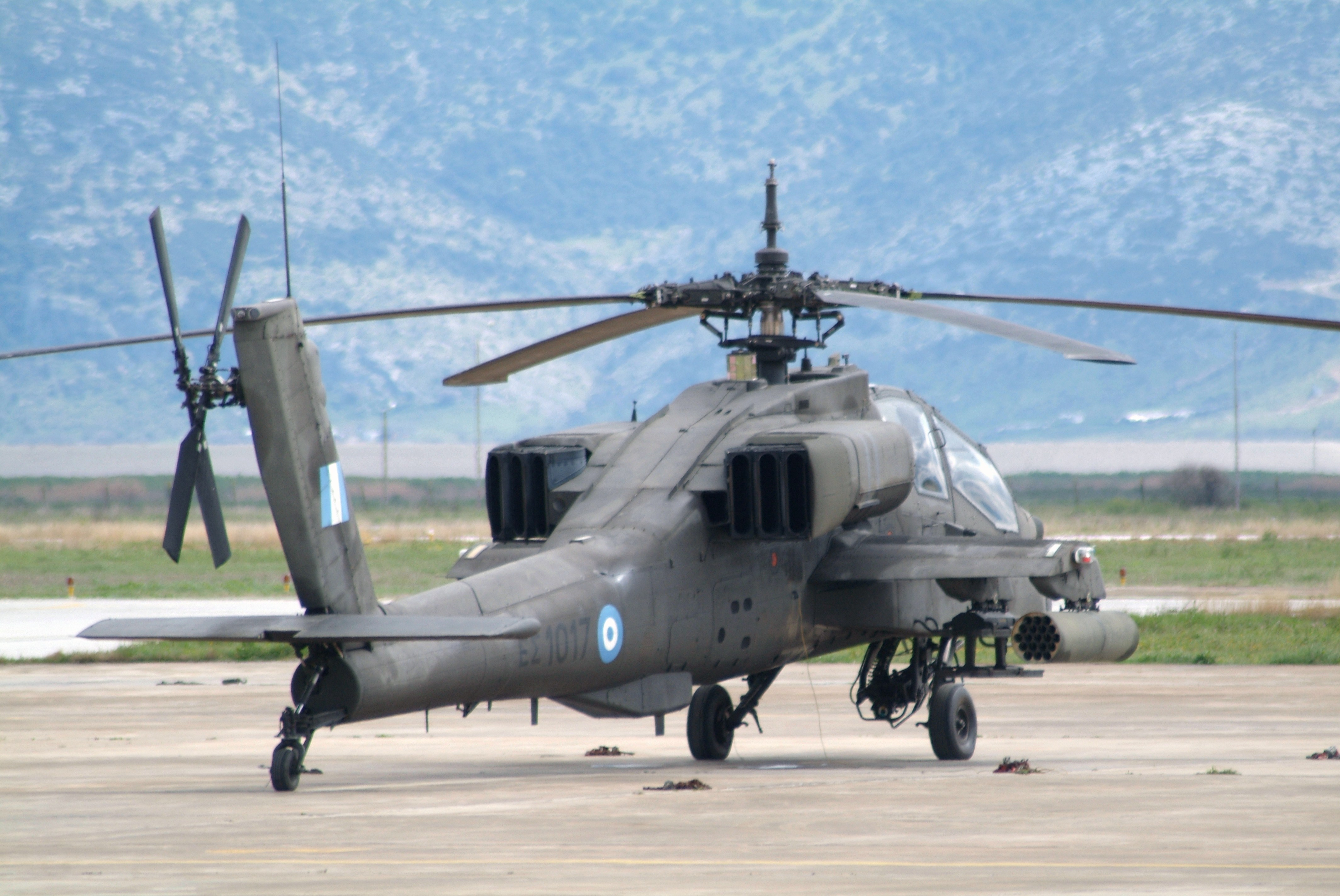 AH-64A Apache Greek Army Stefanovikion